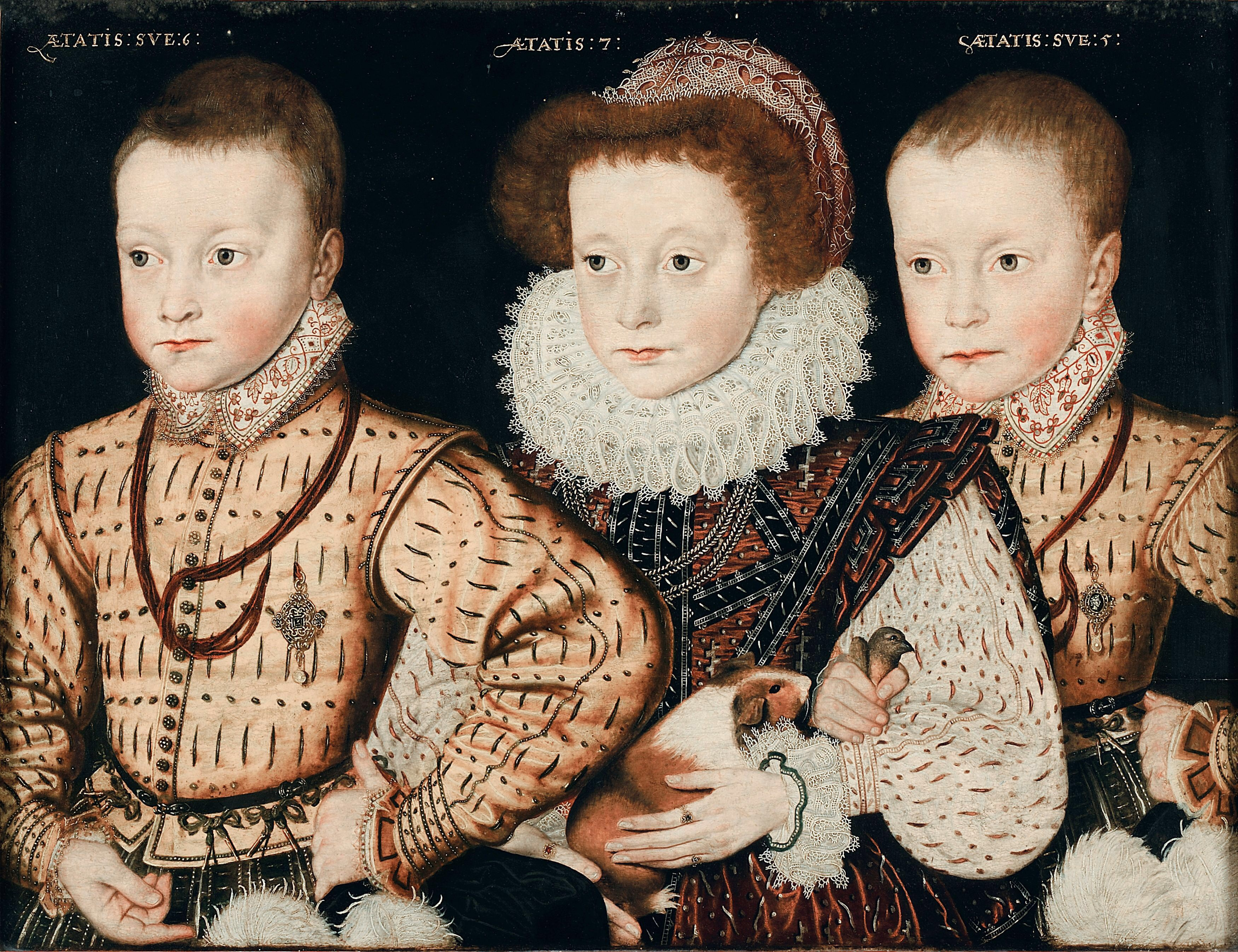 Portrait of three unknown Elizabethan children, one holding a guinea pig.